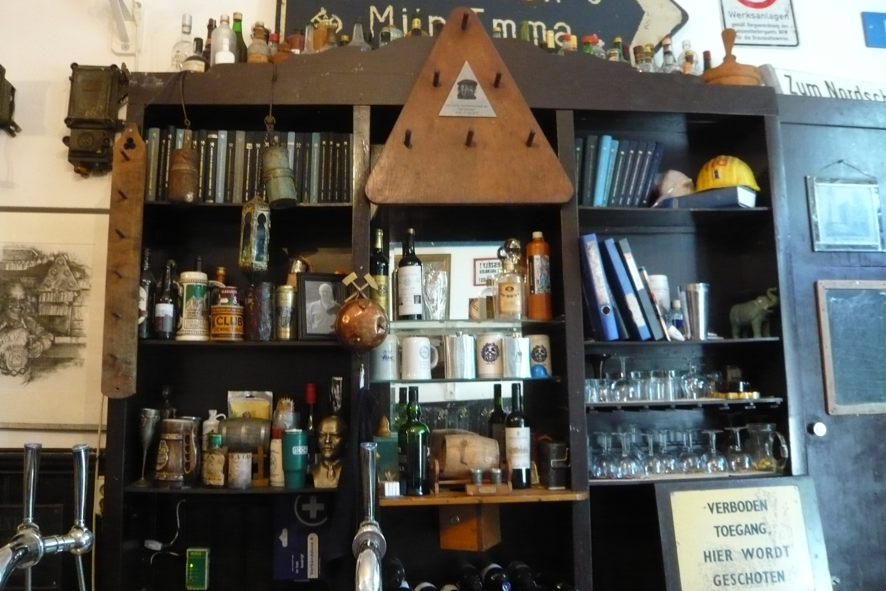 Café "Het Noorden" bij studentenhuis Jan Garoshuis, Kolk 2, Delft